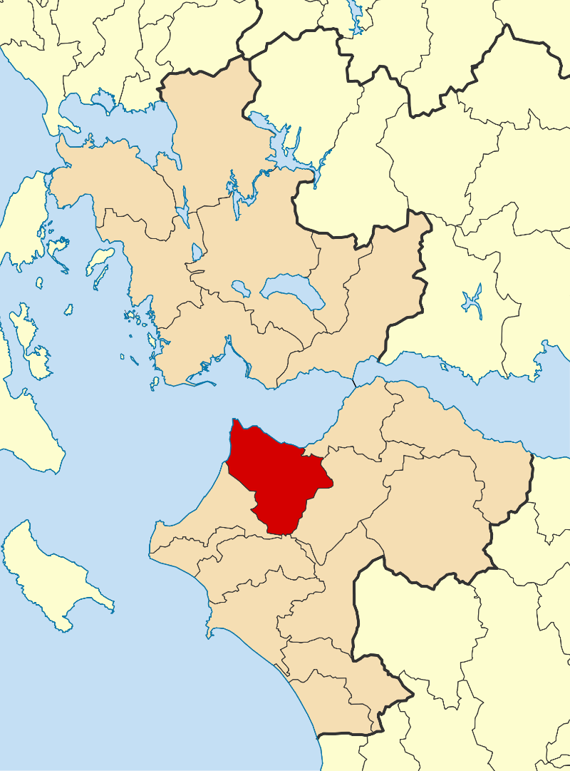 Locator map for Dytiki Achaia municipality in Greek region Western Greece (2011)